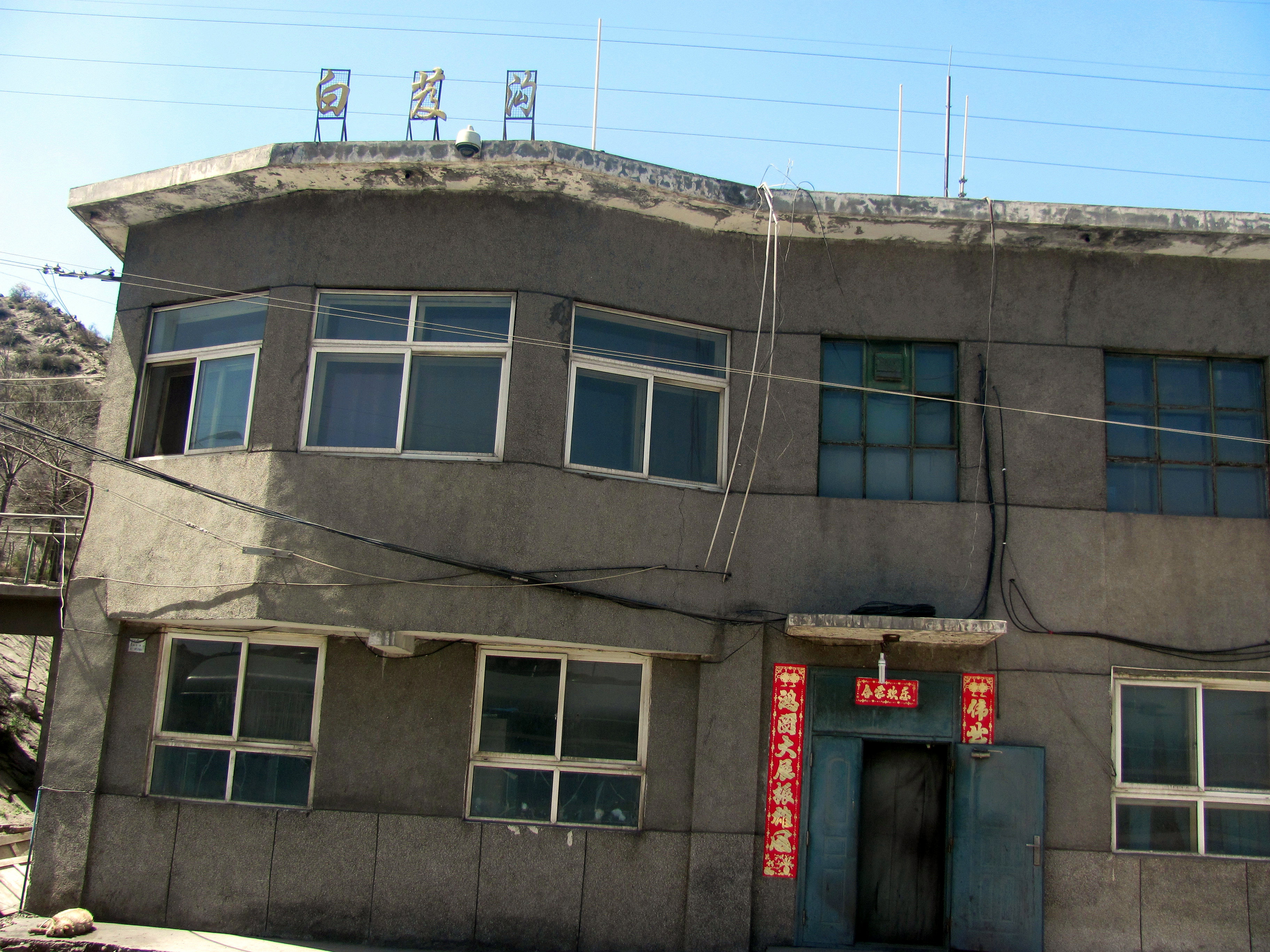 Baijigou Railway Station